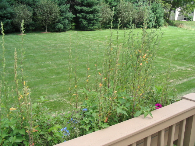 "A picture I took of my deck garden." cf. [1]